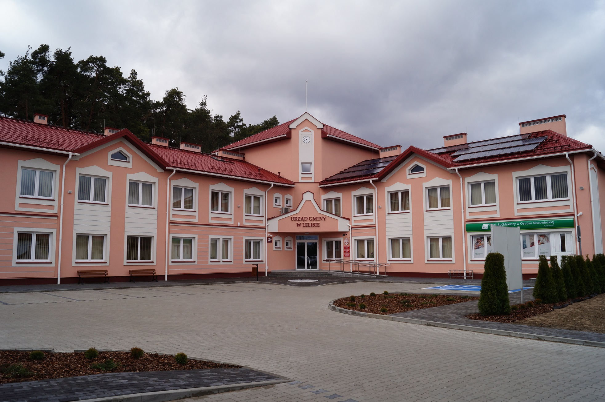 Urząd Gminy Lelis